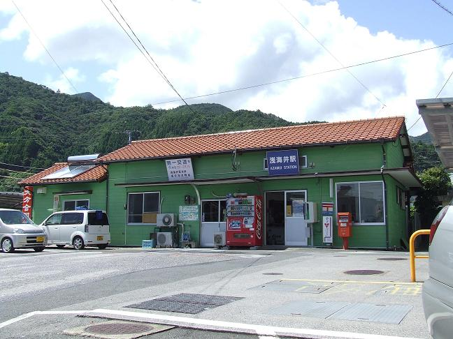 Azamui Station on Nippo Main Line